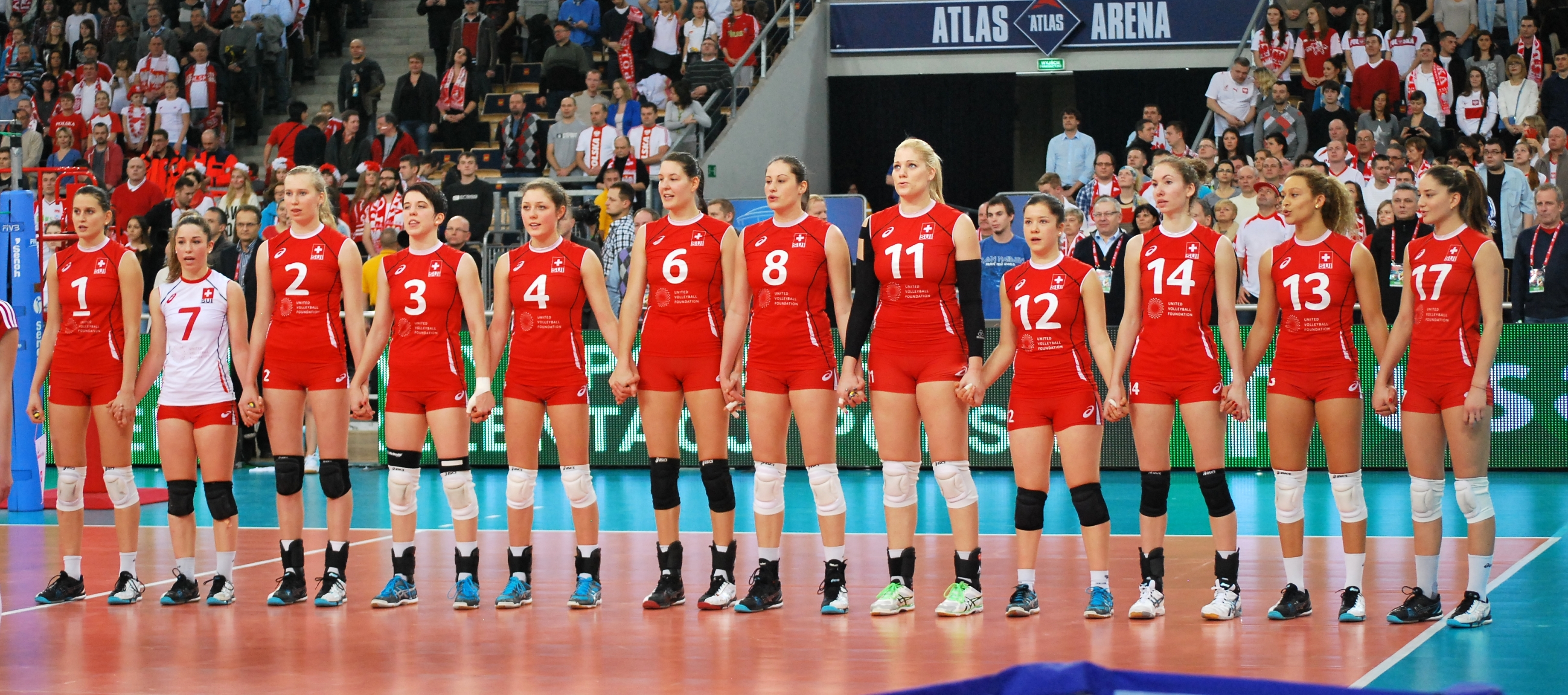 FIVB World Championship European Qualification Women Łódź January 2014. Switzerland volleyball women national team